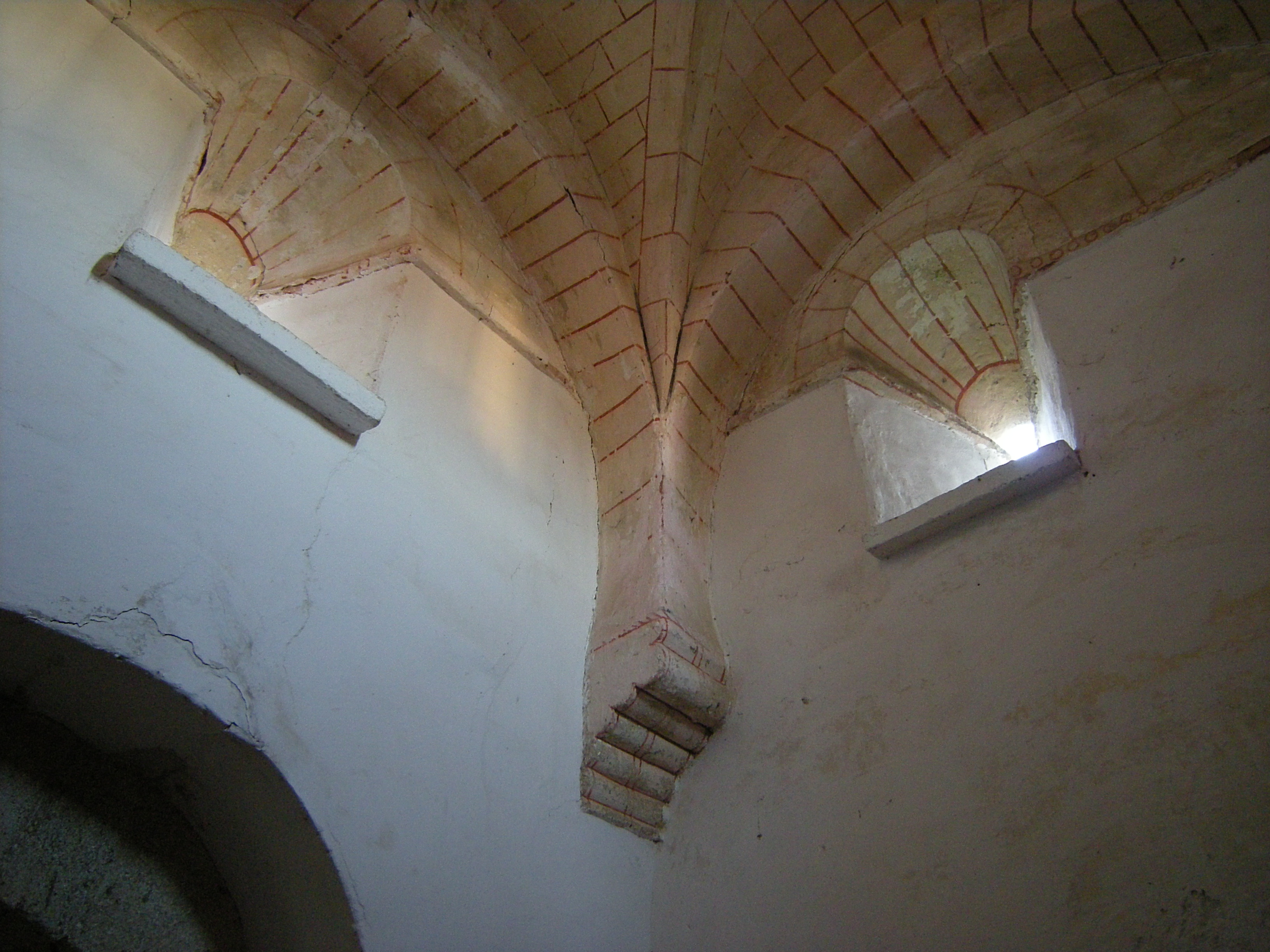 Pre-romanesque chapel of San Miguel of Celanova - Galicia - Spain